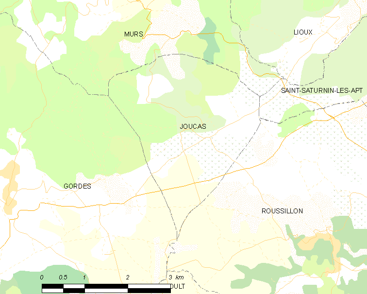 Map of French municipality Joucas